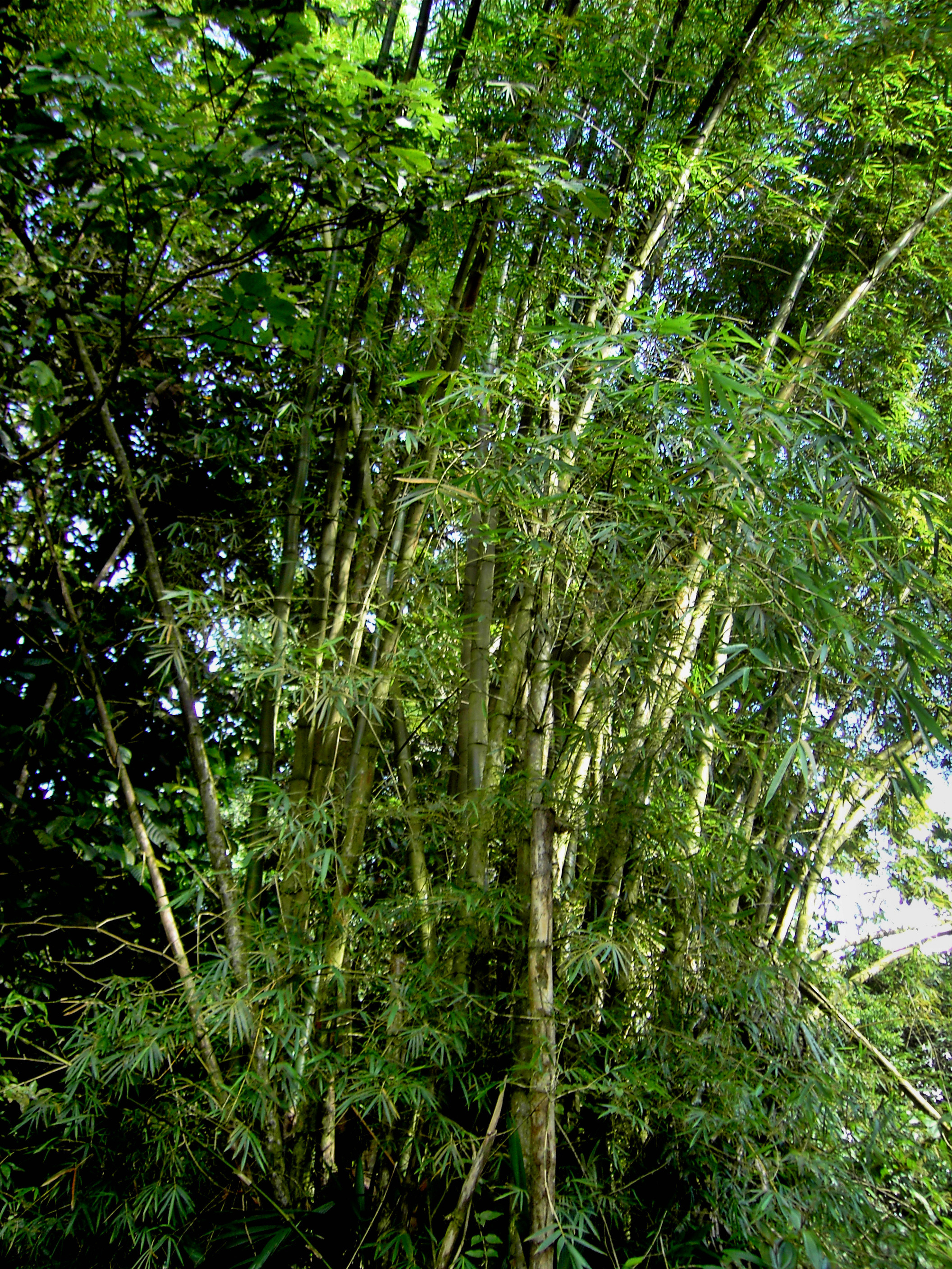 Bamboo in the rainforest of Dominica W.I.